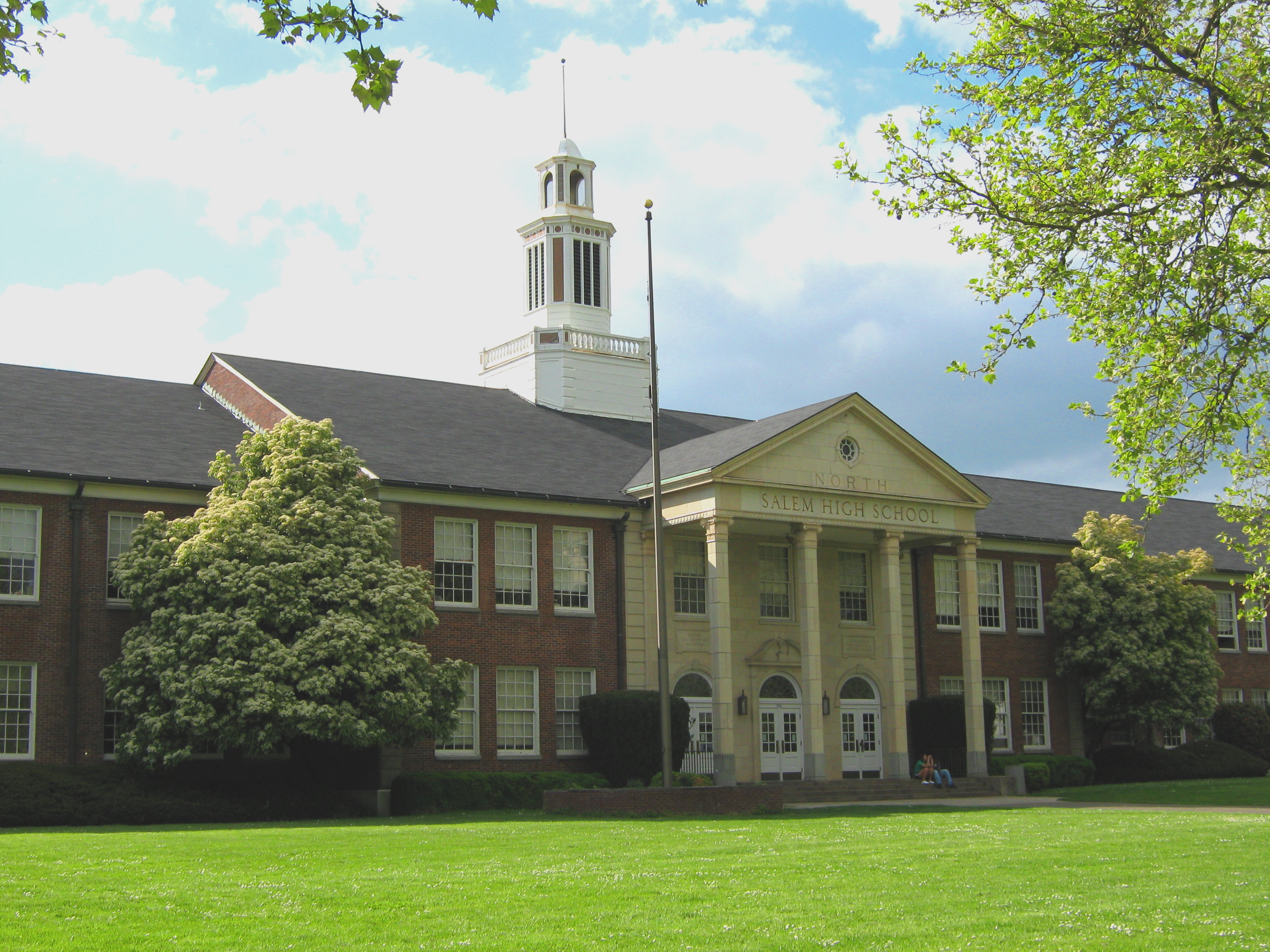 North Salem High School, Salem, Oregon, United States